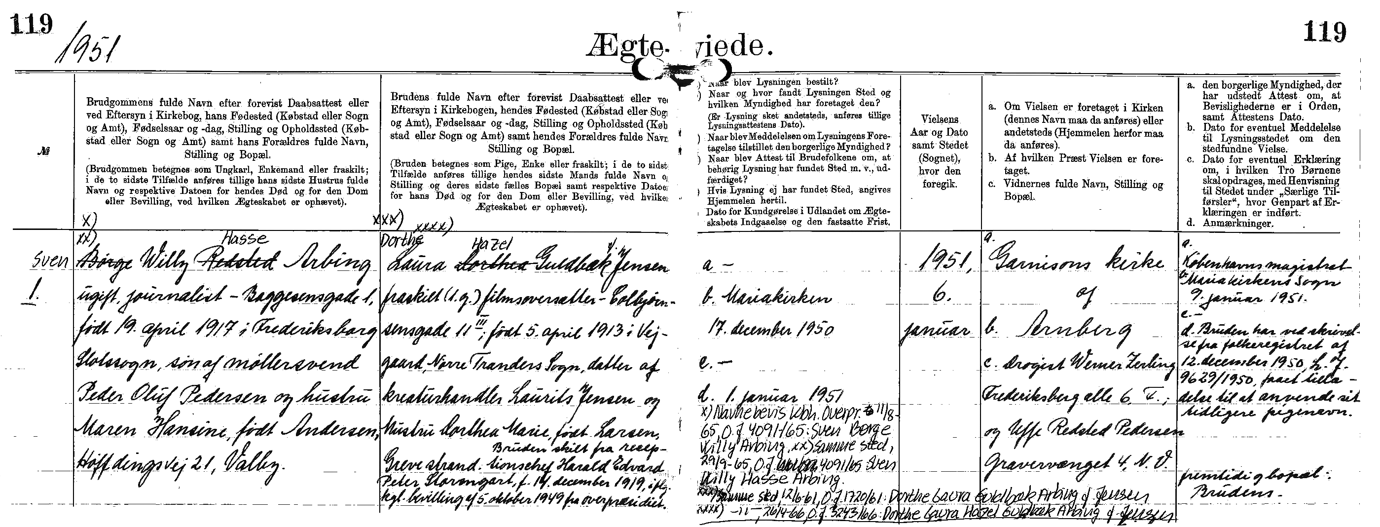 Excerpt of the parish register for Garrison Church 1951-01-06 with the marriage of Børge Willy Redsted Pedersen and Laura Dorthea Guldbæk Jensen.